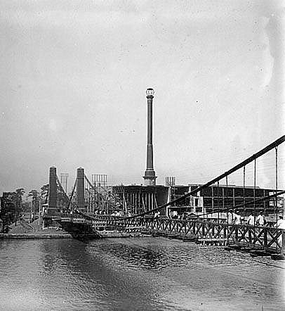 Puente Colgante (Manila), The Industrial Age found its expression in the Philippines in the form of a bridge unparalleled throughout Asia.